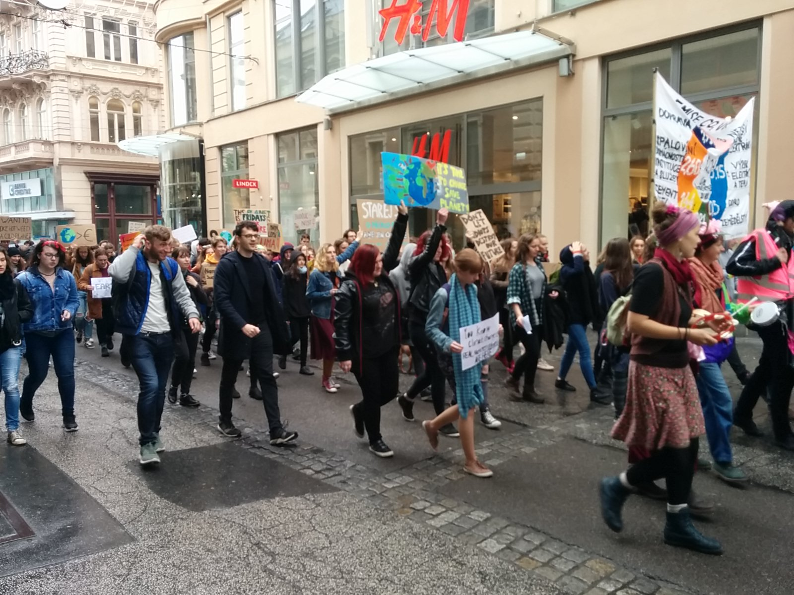 2nd student strike for climate - Fridays for future Czechia Brno